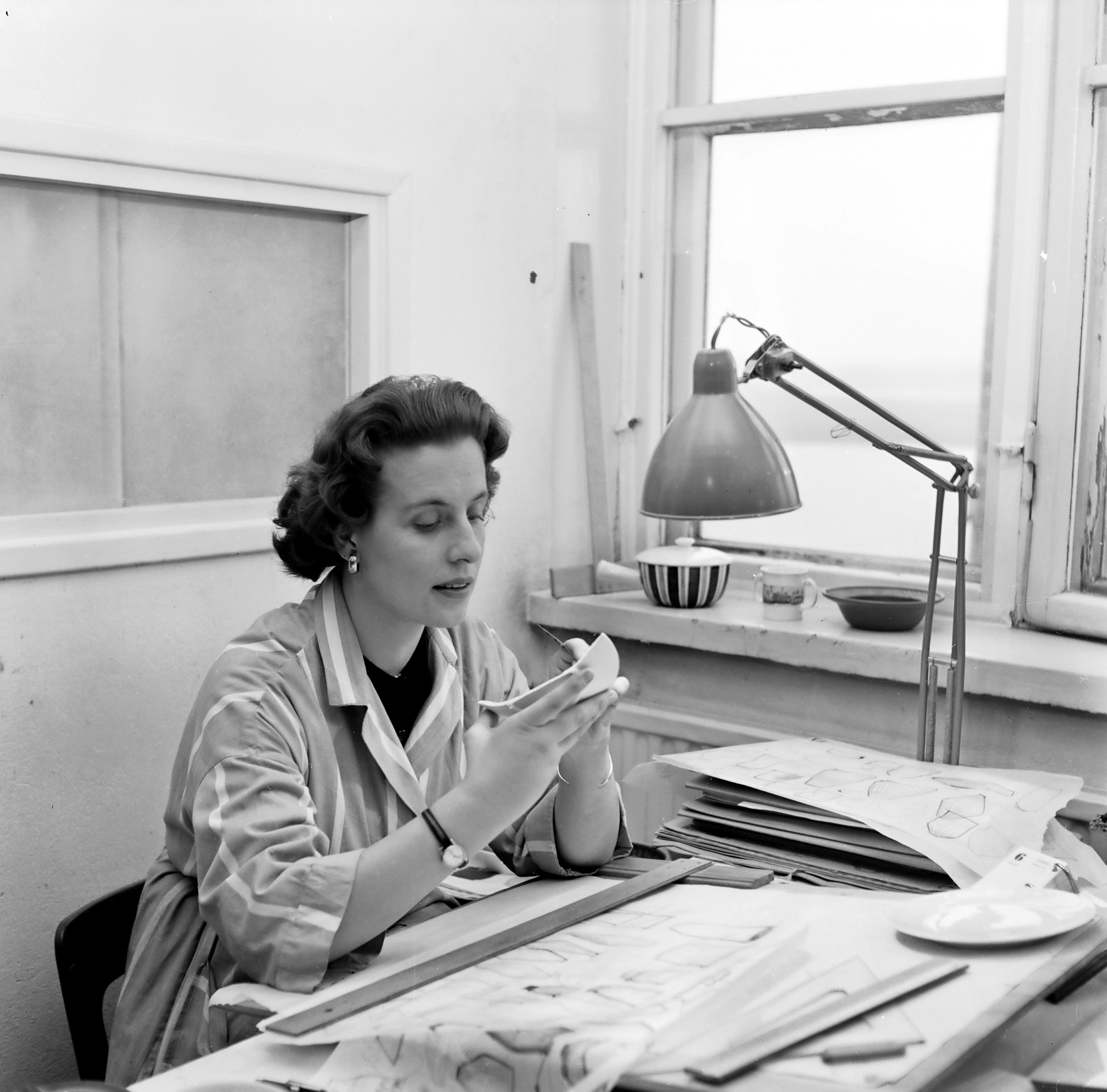 Photograph of the Finnish designer Ulla Procopé (1921–1968).